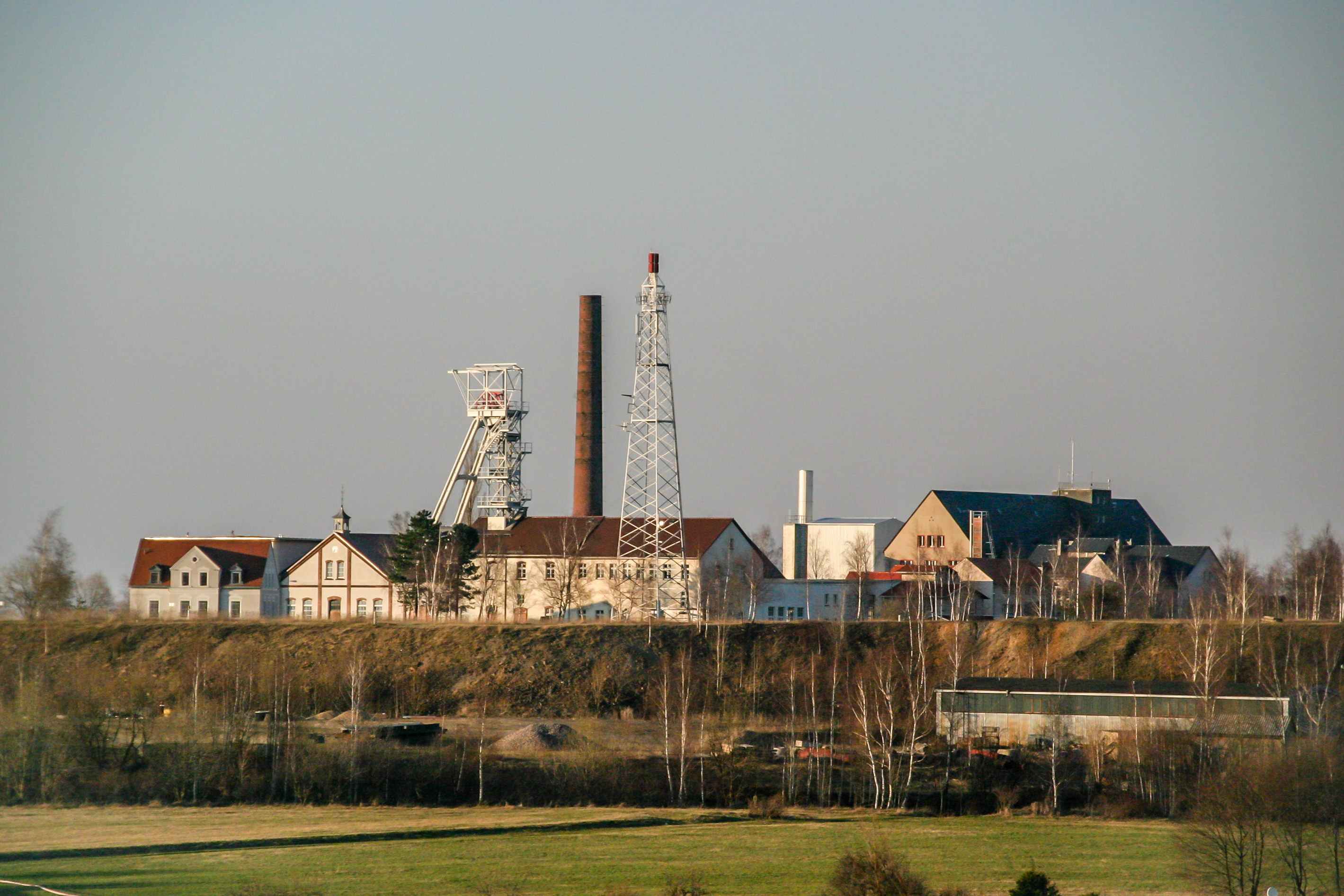 Old silver mine “Reiche Zeche” in Freiberg, Saxony, Germany.